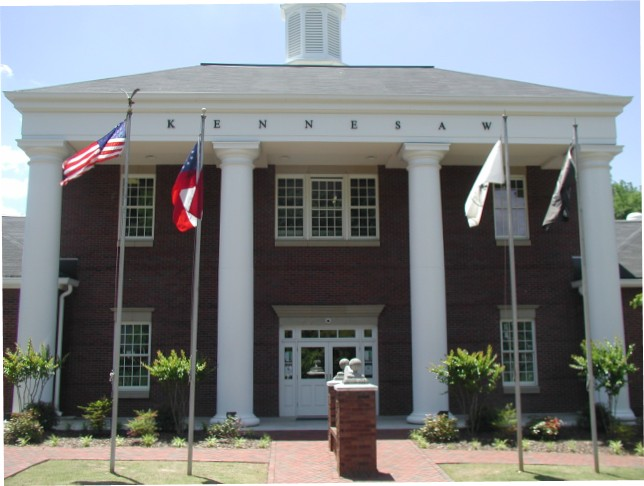 Kennesaw City Hall, front (north face) view